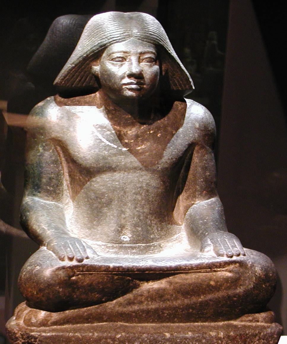 Granite seated scribe statue from Saqqara.